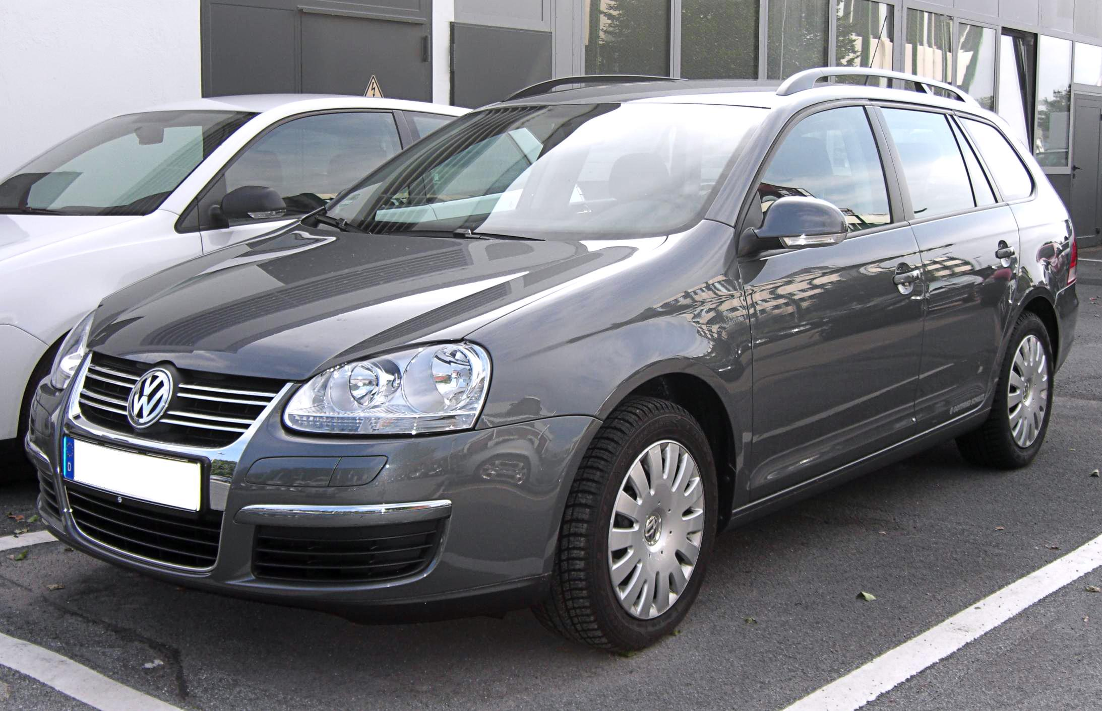 VW Golf Variant